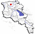 Location map for Stepanavan, Armenia.